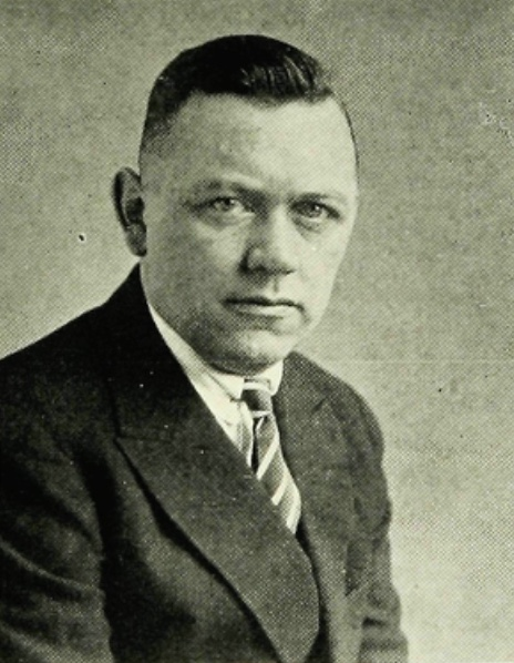 Fordham men’s basketball coach Ed Kelleher from the 1925 Maroon yearbook